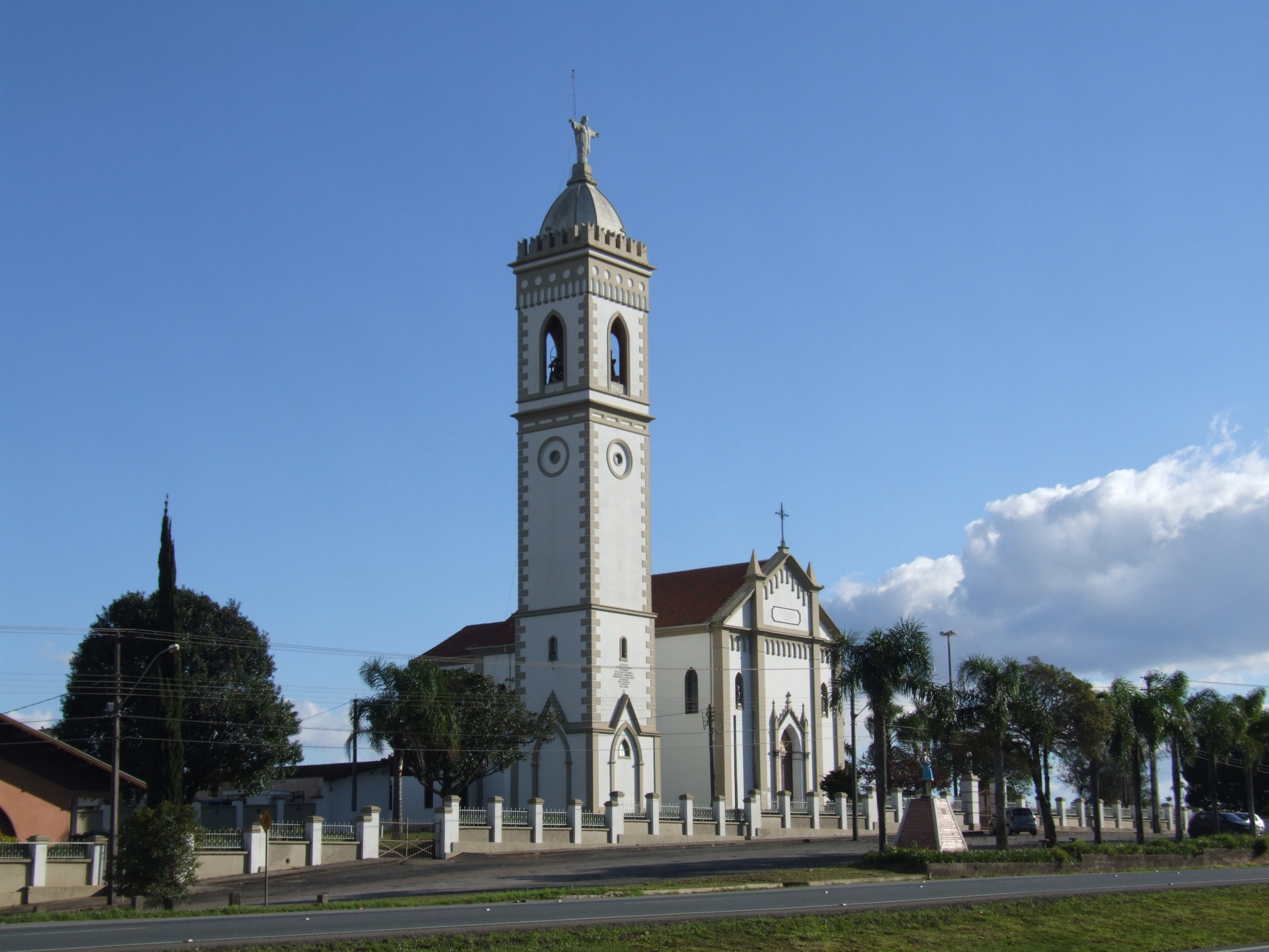 Church of Saint Sebastian of Rondinha. Located in neighbourhood of Rondinha, on the banks of th Rodovia do Café. Church builded in 1906.